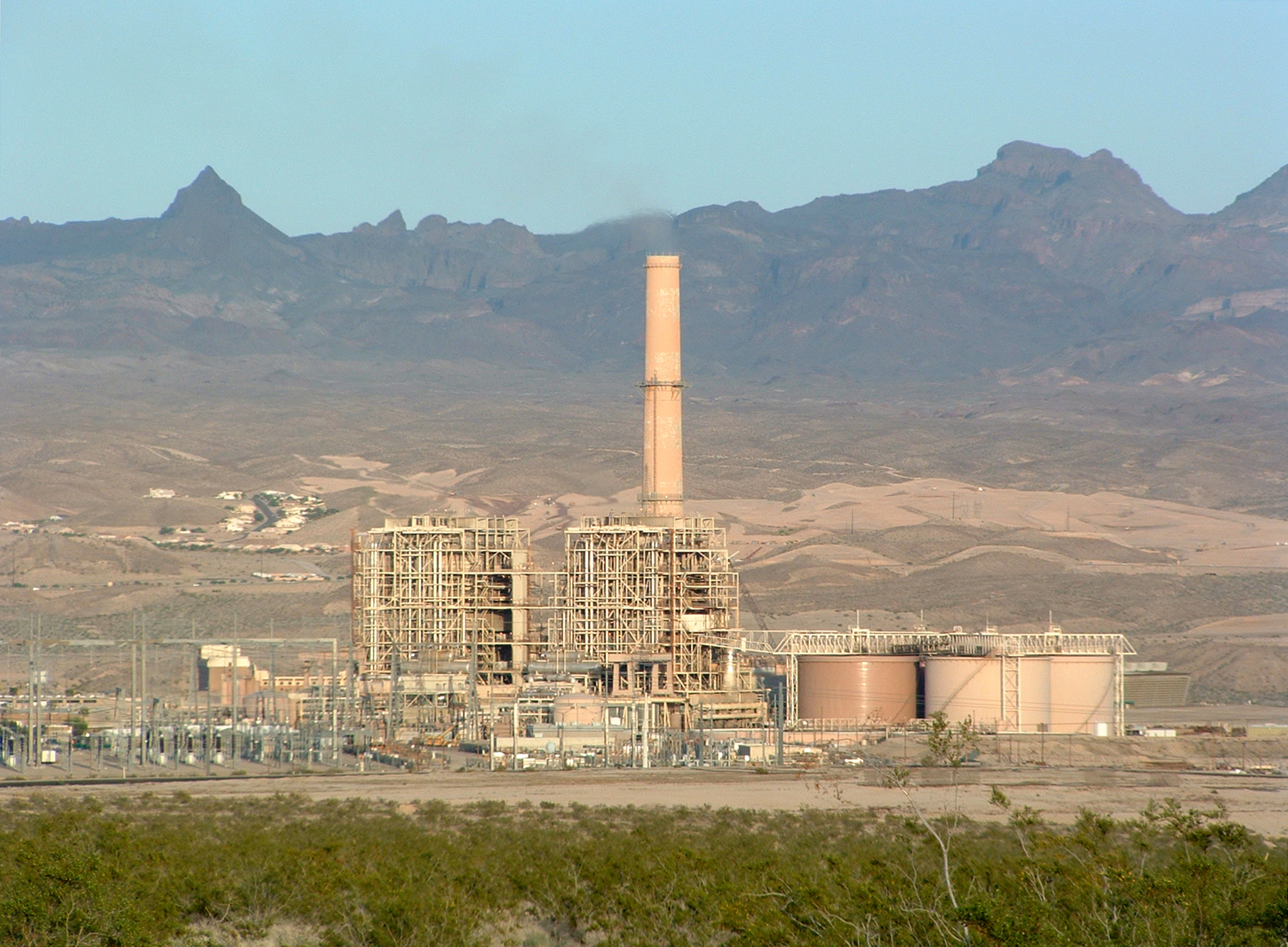 Summary: This is a picture of Mohave Generating Station, a 1,580 MW coal plant